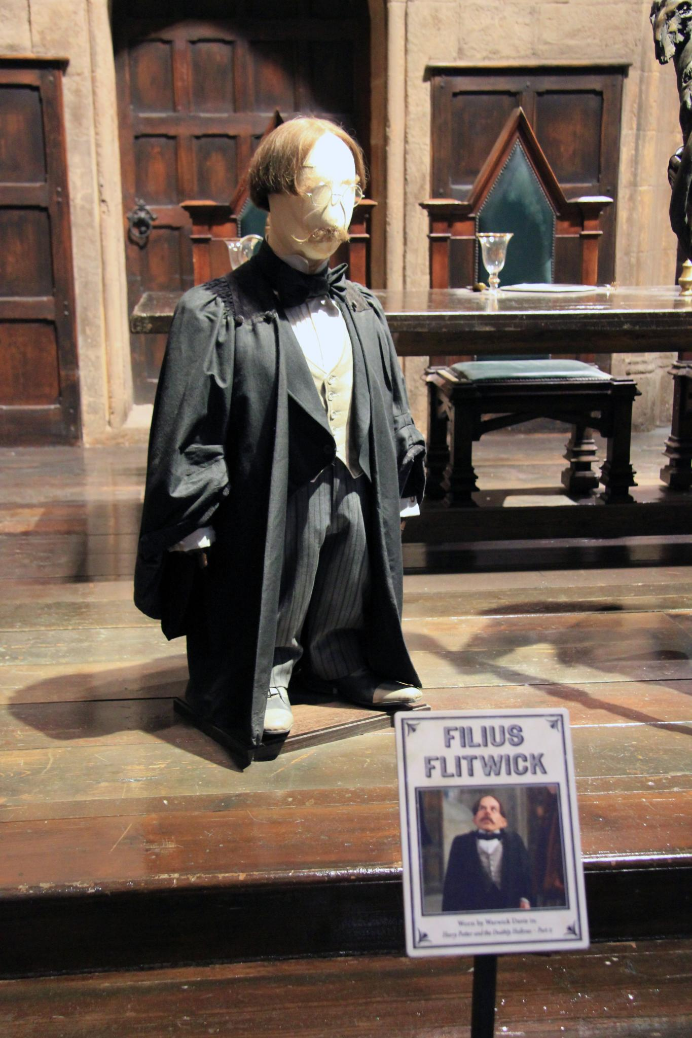 Warner Bros. Studio Tour London: The Making of Harry Potter.